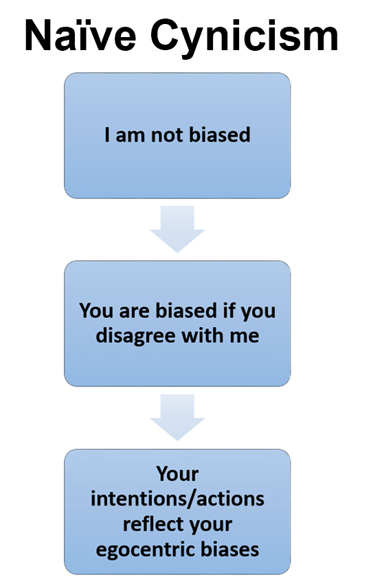 Flow chart of naive cynicism